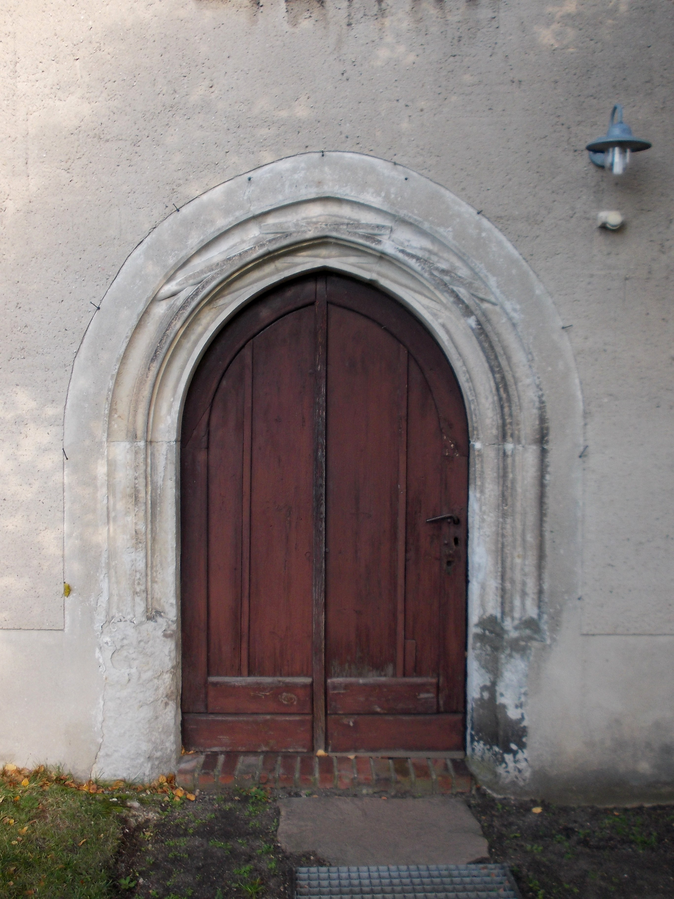 Luther Church in Görschlitz (Laussig, Nordsachsen district, Saxony)